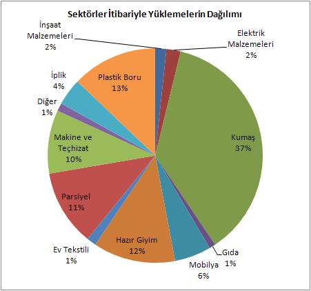 Loadings of TLT Group in Turkish